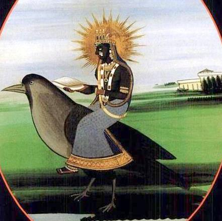 "Mahavidya Dhumavati", Jaipur, Rajasthan. Ajit Mukharjee collection 1926